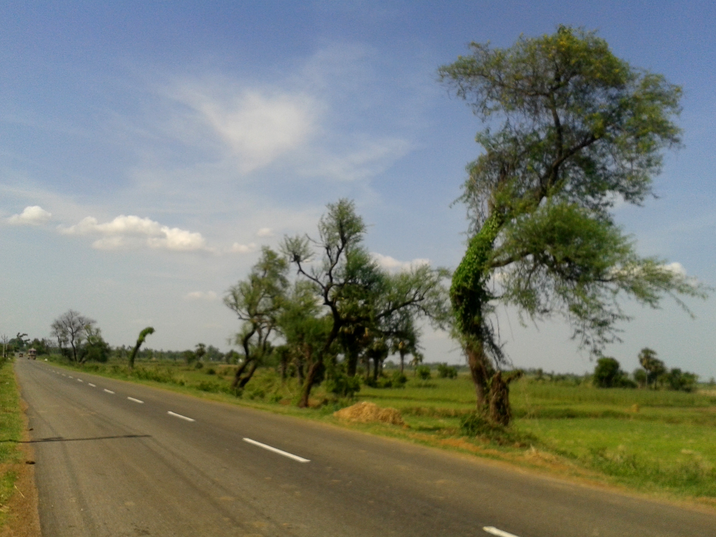 Hiramandalam Road near Dannanapeta in Srikakulam district